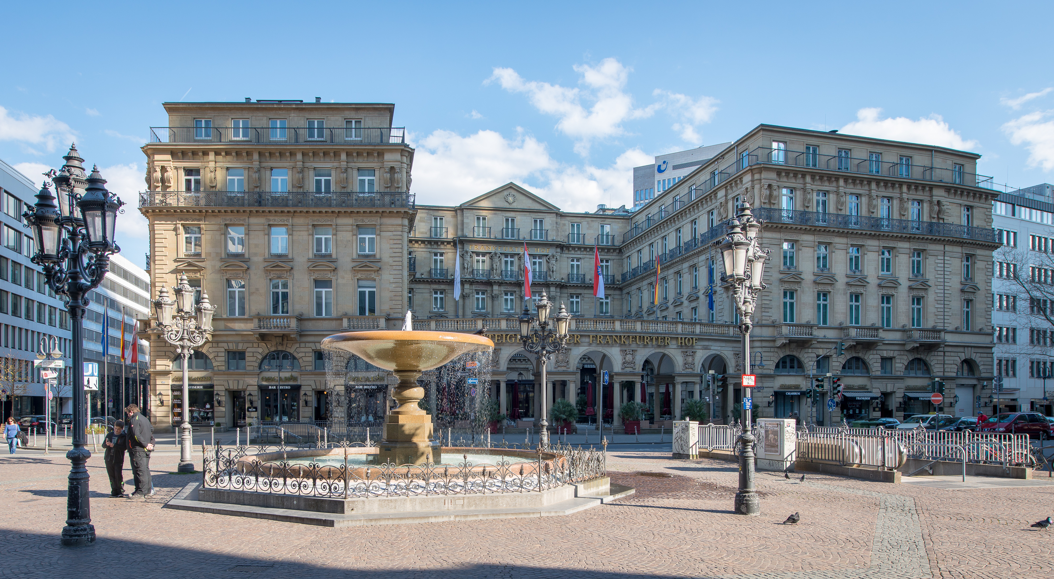 Frankfurt am Main, Kaiserstraße / Am Kaiserplatz, Hotel Frankfurter Hof (northern side, main portal).